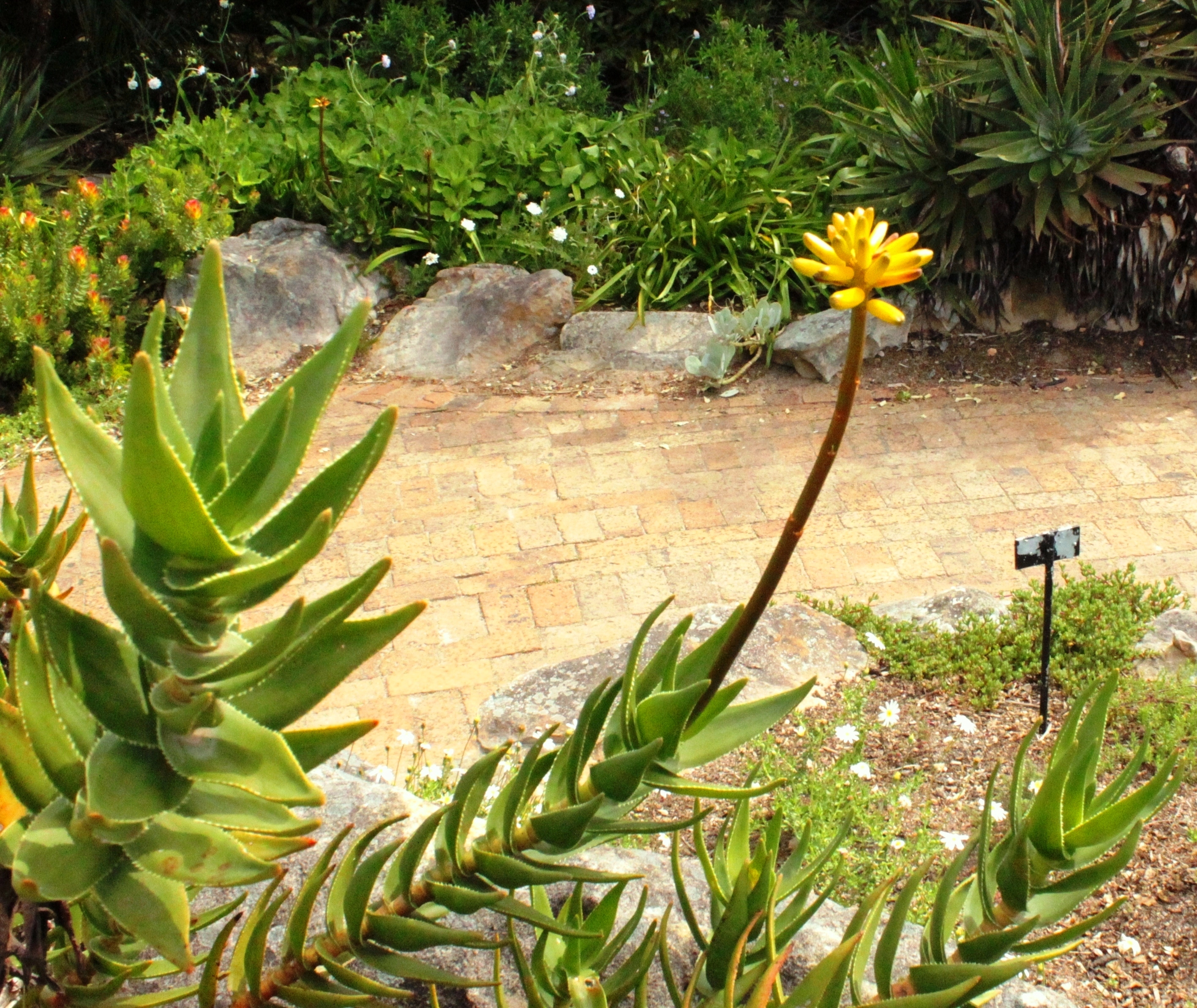 Aloe commixta. Cape Towns endemic aloe. Kirstenbosch gardens.